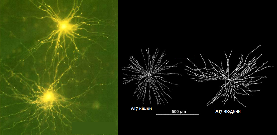 A17 amacrine cells adapted from